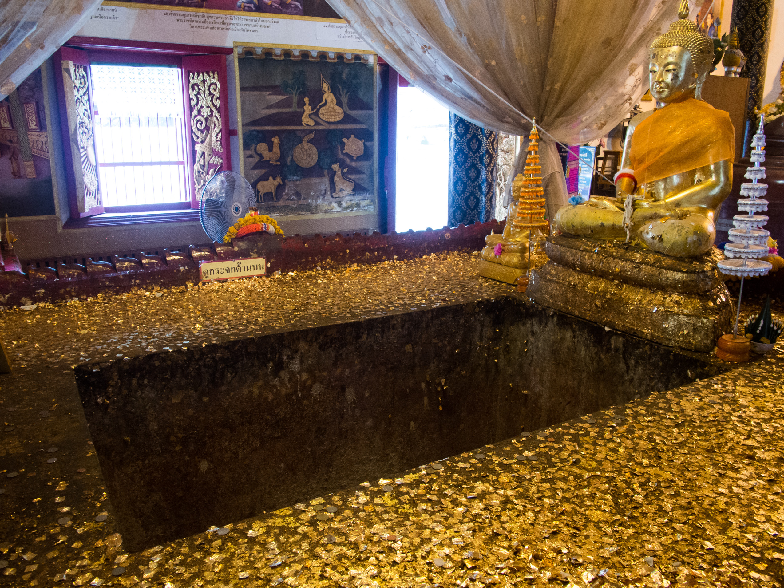 A large pit inside a laterite base (which is said to have been built in the Sukhothai era) has many people throwing coins into it. If the coin lands into an alms bowl set inside the pit, it is thought to bring luck.